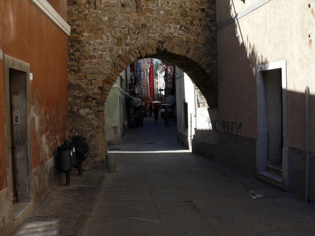 Muggia, old city gate